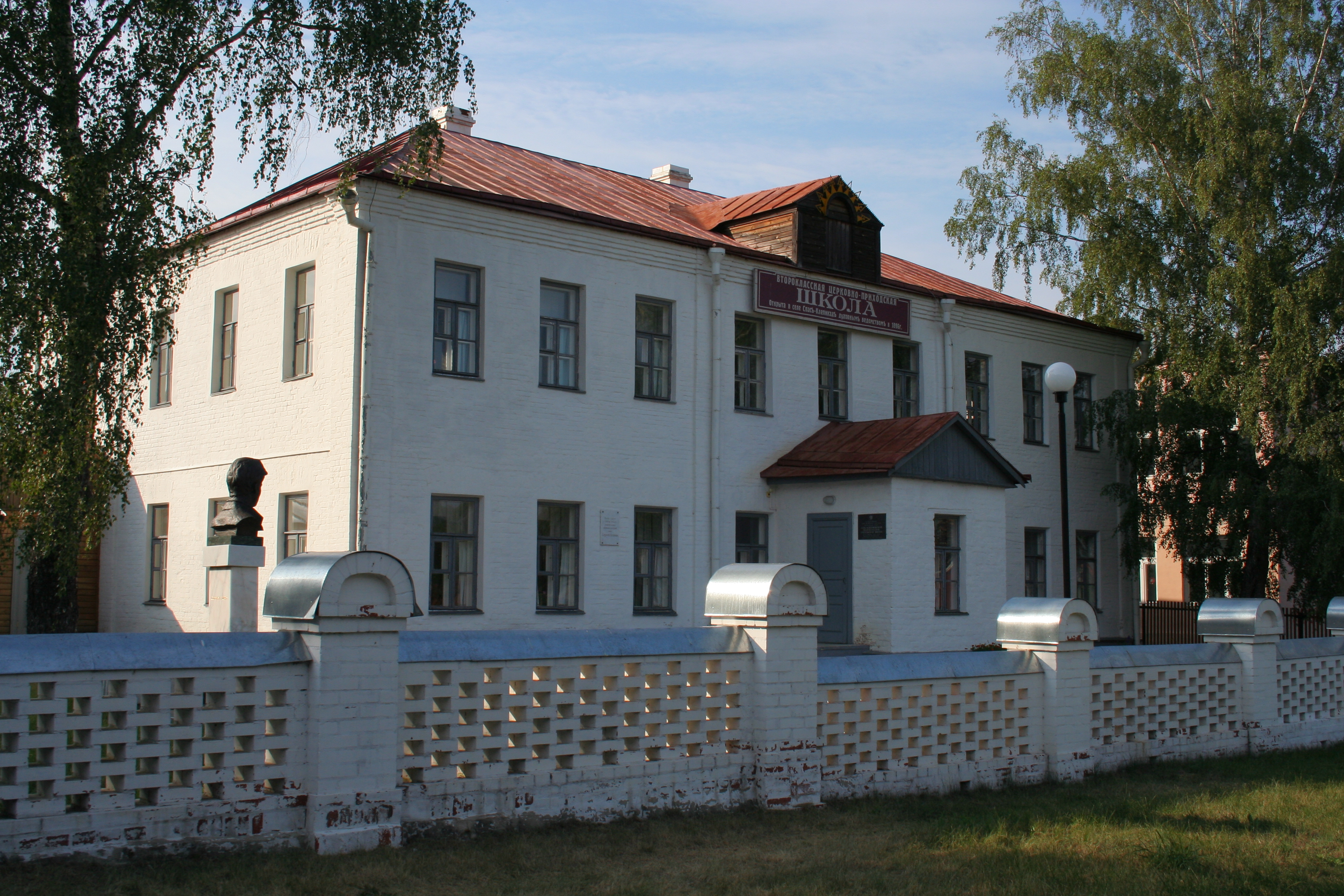 Former school of Sergei Yesenin in Spas-Klepiki, Russia.